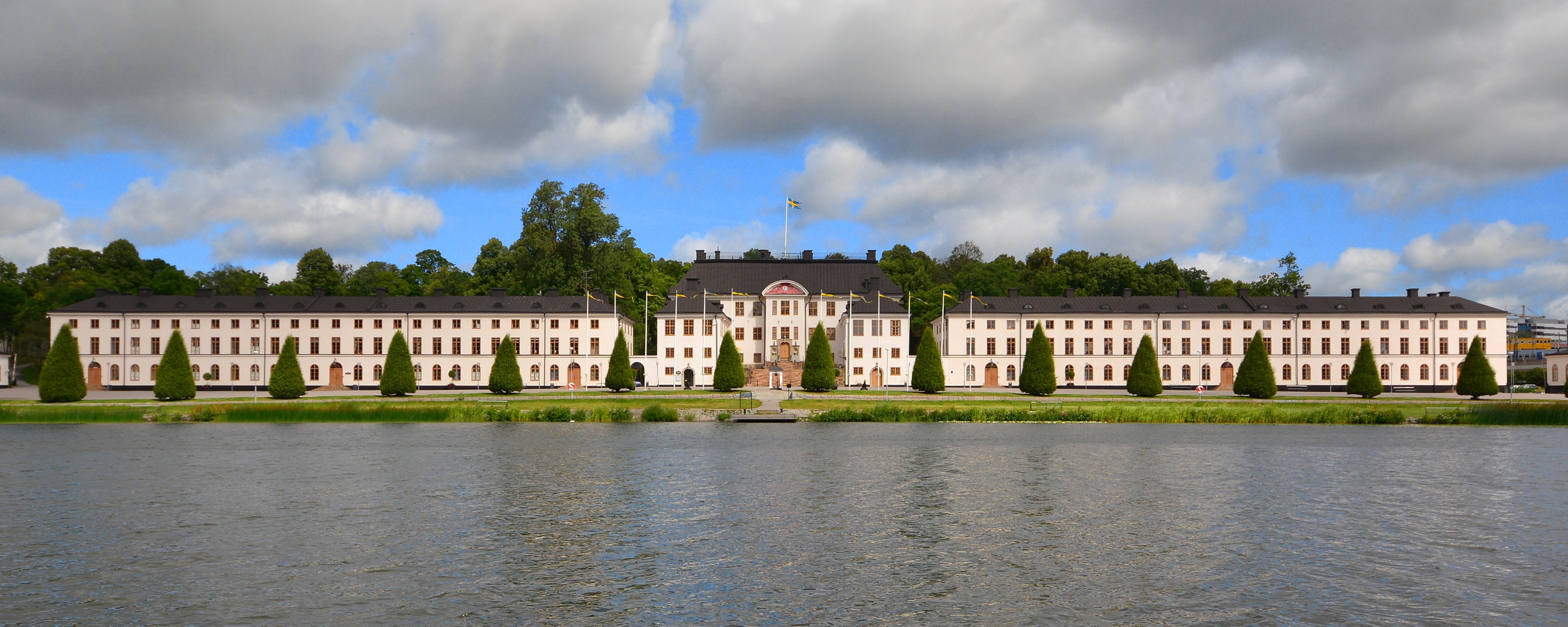 Karlberg Palace